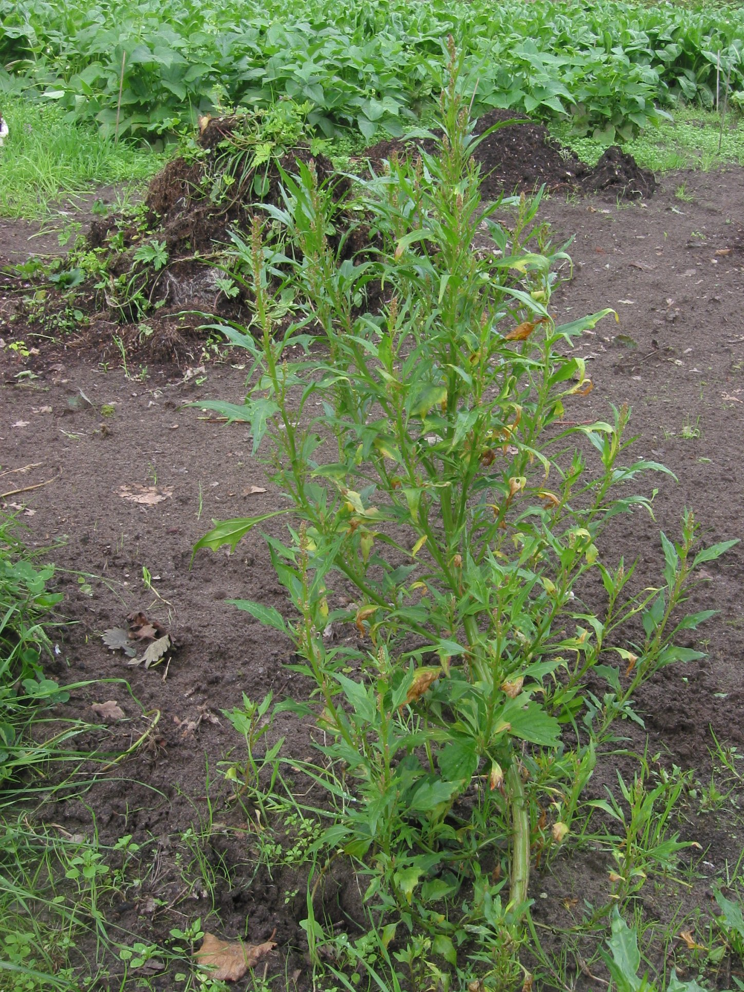 Chenopodium rubrum flowering